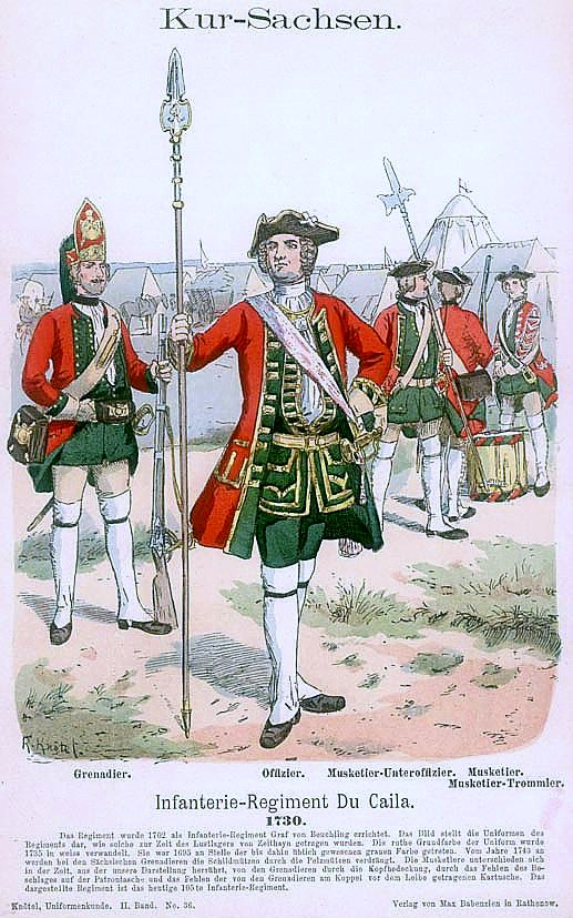 Kur-Sachsen. Infanterie-Regiment Du Caila. 1730